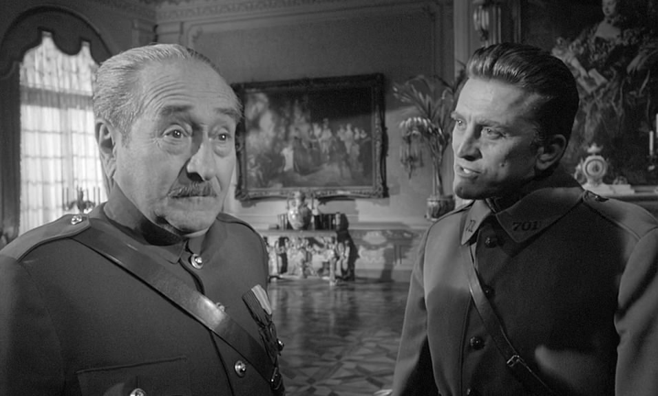 Adolphe Menjou (left) & Kirk Douglas in Paths of Glory - trailer (cropped screenshot)